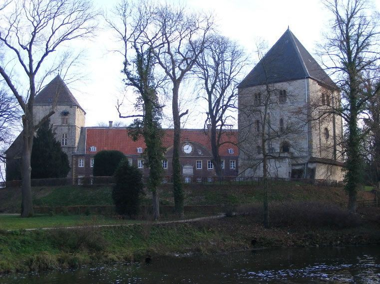 Castle